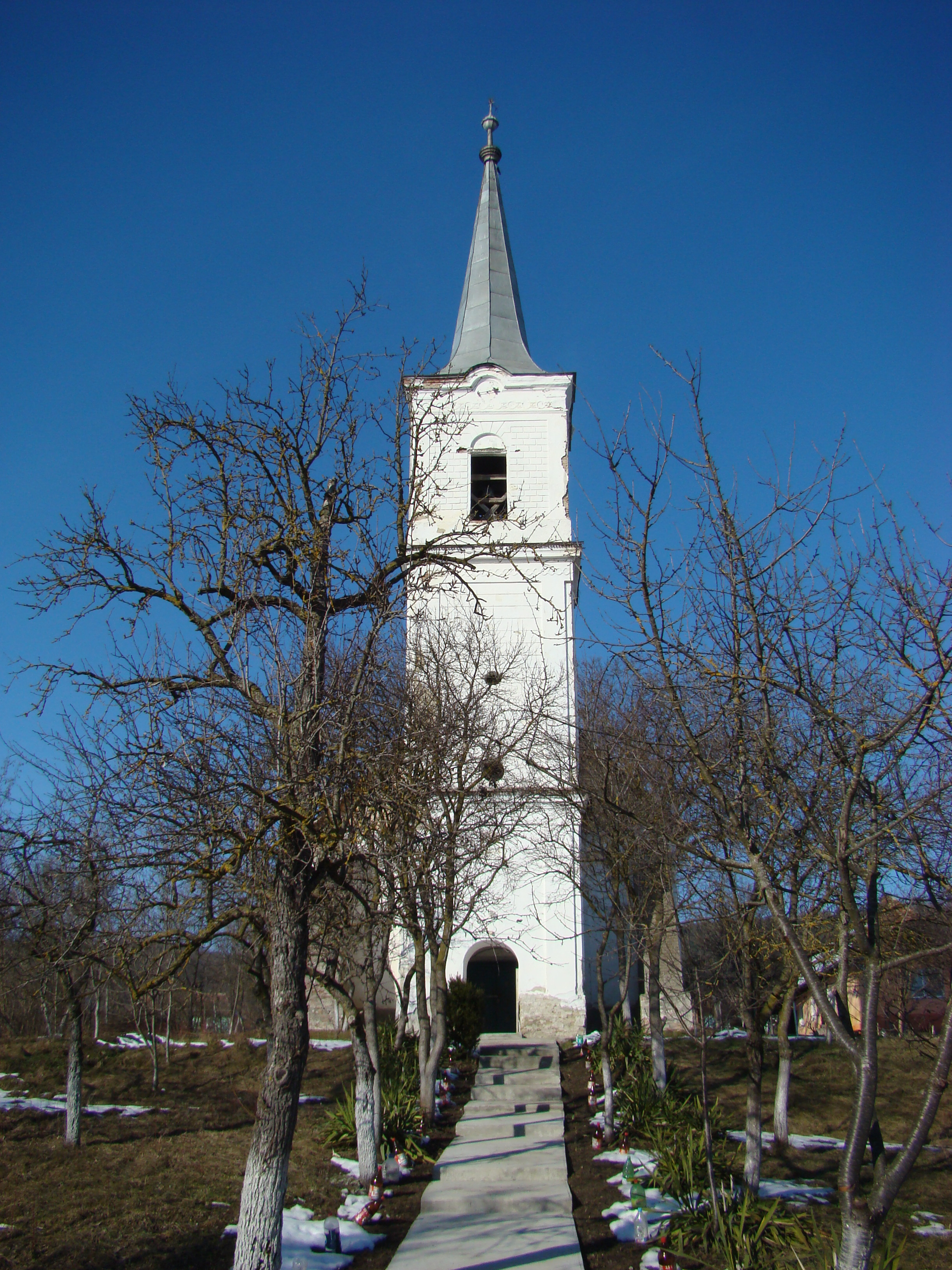 Coroisânmărtin, Mureș county, Romania